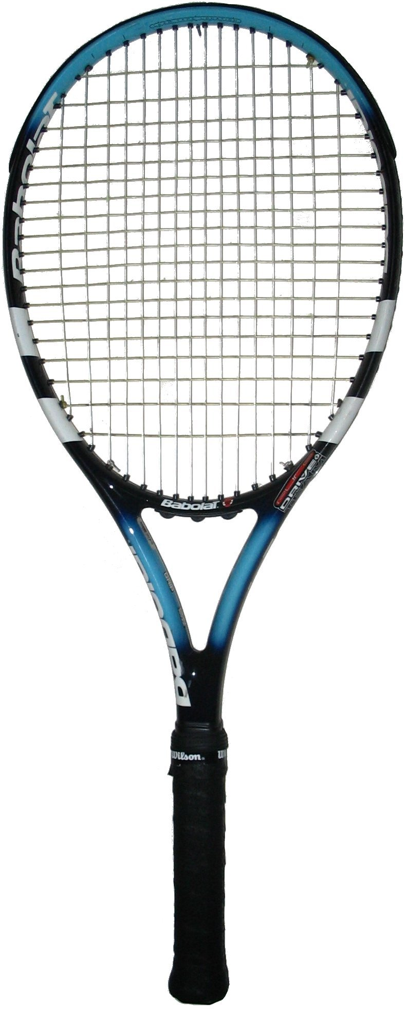 This photograph was taken by Tim (Bearingbreaker92) and released into public domain. Later edited by utcursch with GIMP for white background (all changes in public domain).